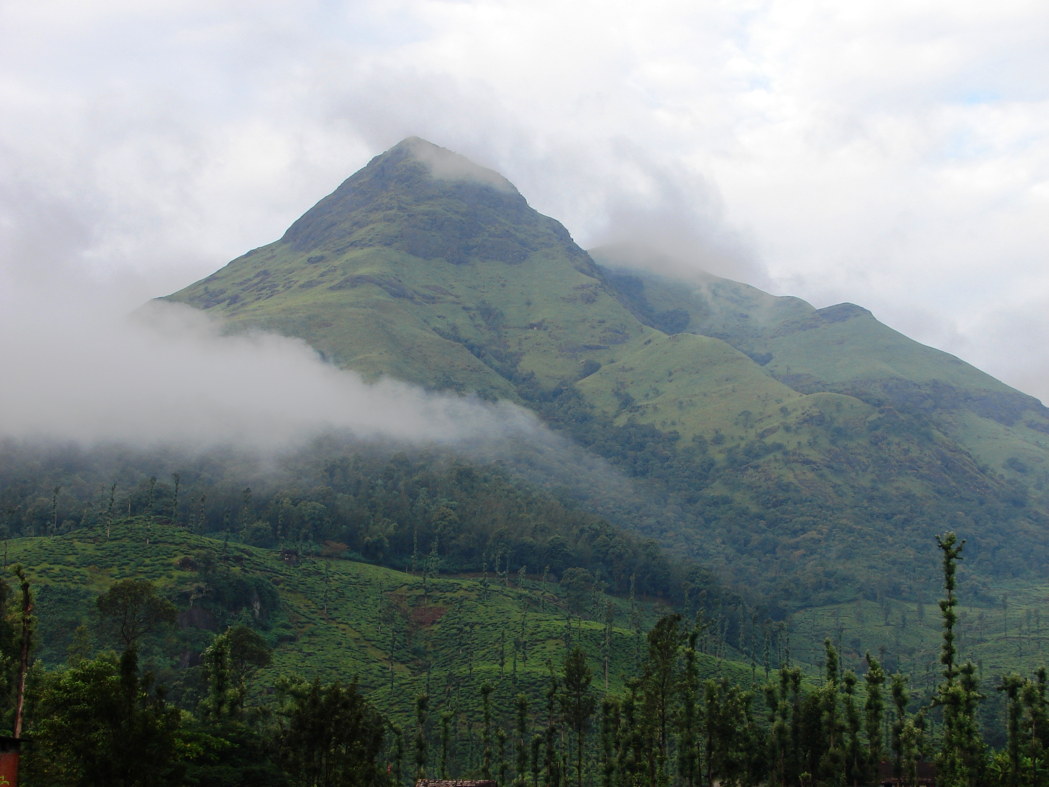 Chembra Peak (Wayanad), India